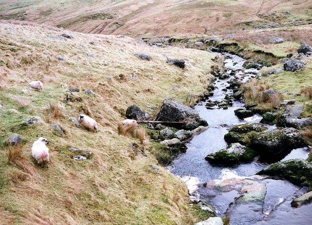 Grazing Sheep Sheep grazing beside one of the many small burns that flow down the Glens of Antrim into the River Dall